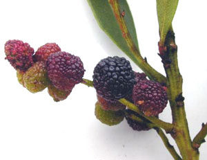 Myrica faya fruit - US NPS photo [1]